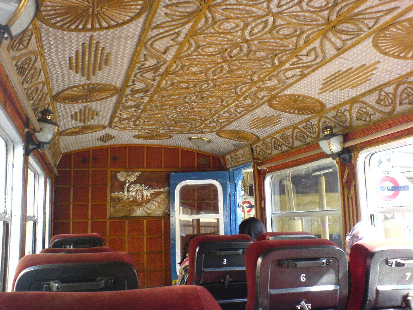 Toy Train